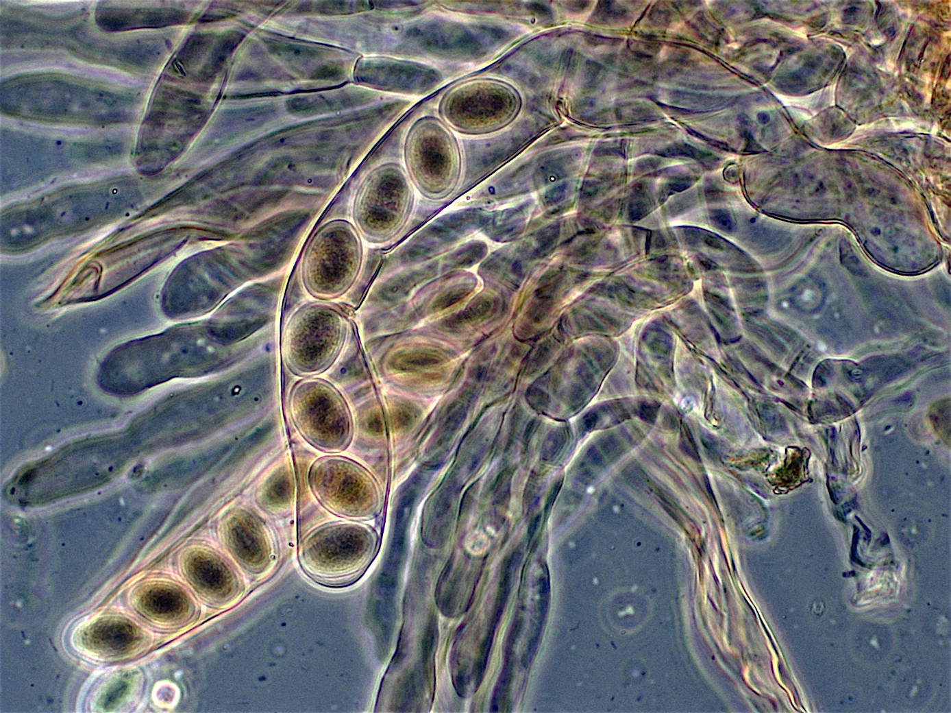 Asci and ascospores, Morchella elata (morel) - lightened and sharpened